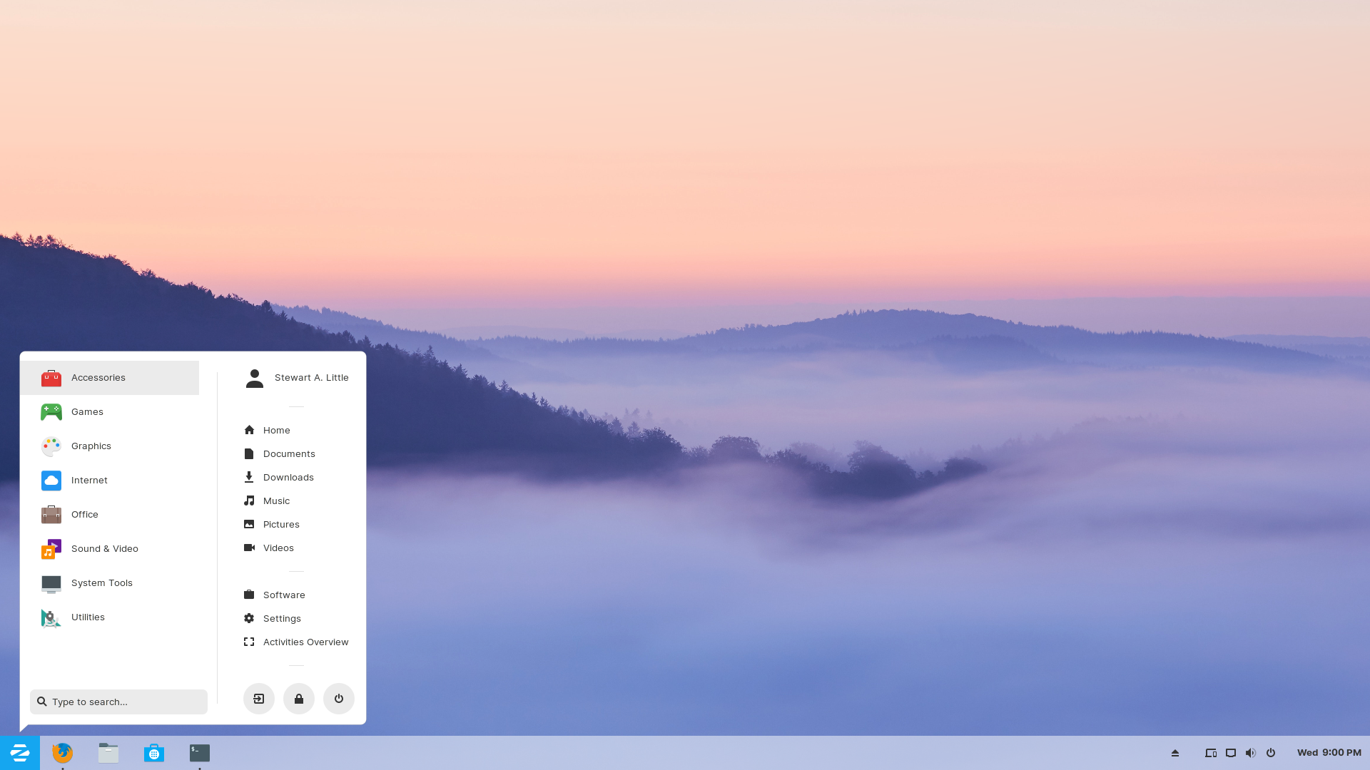 Zorin OS 15 Desktop screenshot